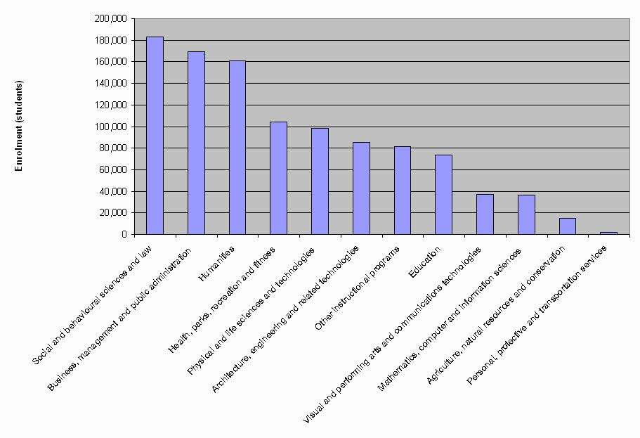 2005/2006 university enrollment for various subjects in Canada. Excel used with Statistics Canada data from here